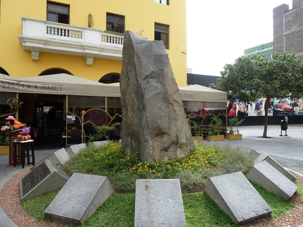 Lima, Perú.